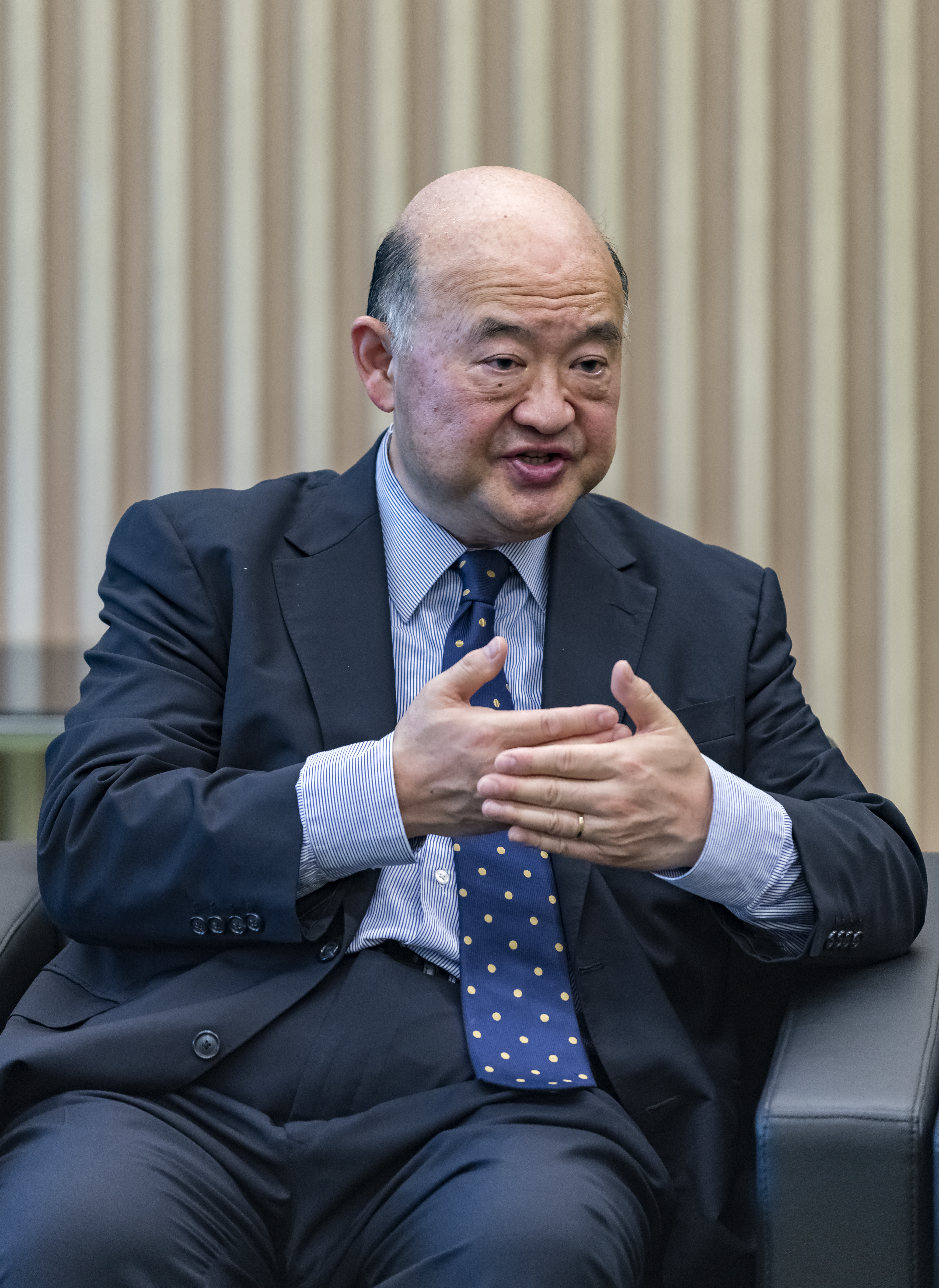 Geoffrey Ma Tao-li, Chief Justice of Hong Court Court of Final Appeal, speaking at Singapore Management University School of Law